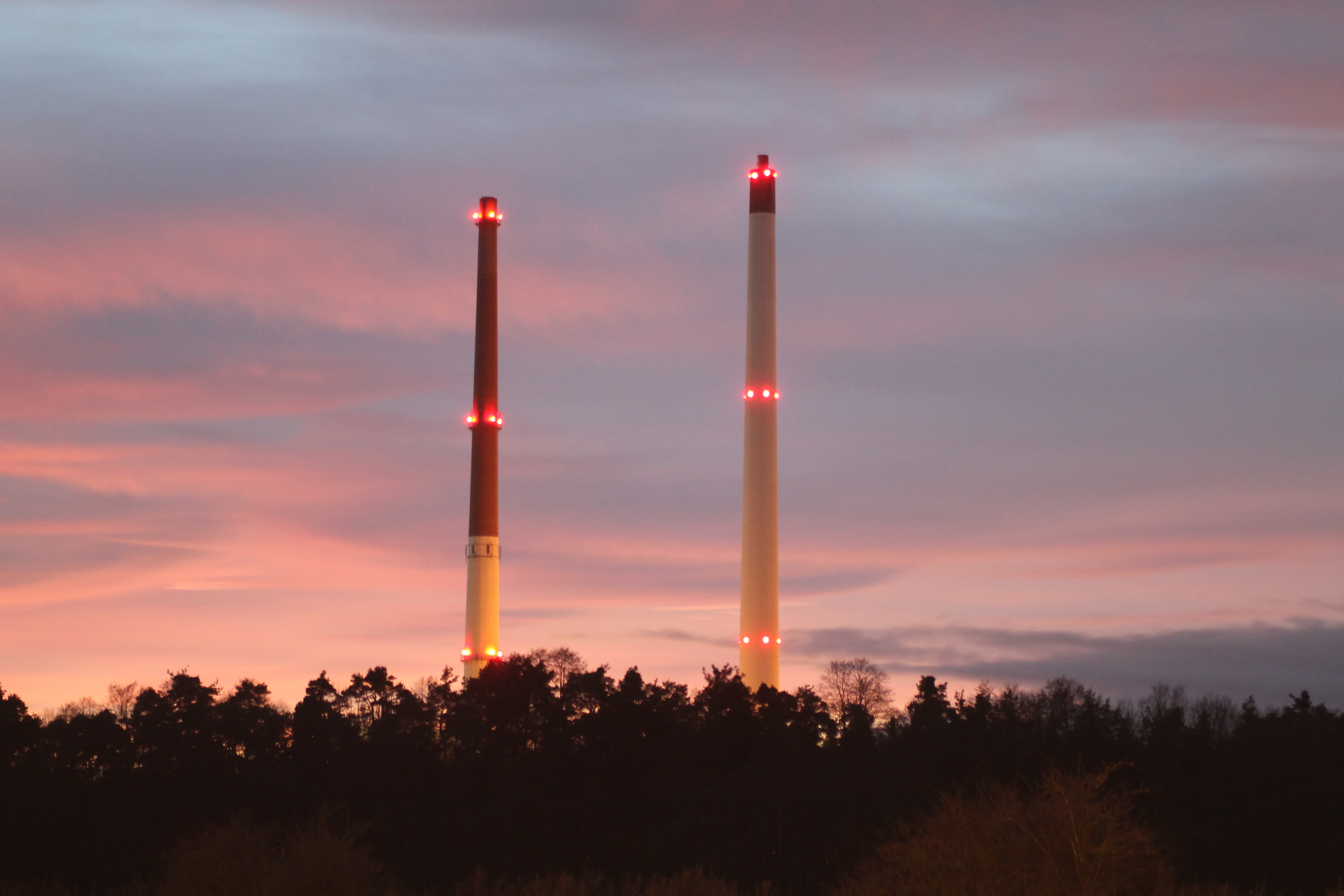 Chimneys of Weiherhammer Pilkington Float Glass Works - OpenStreetMap(Info)